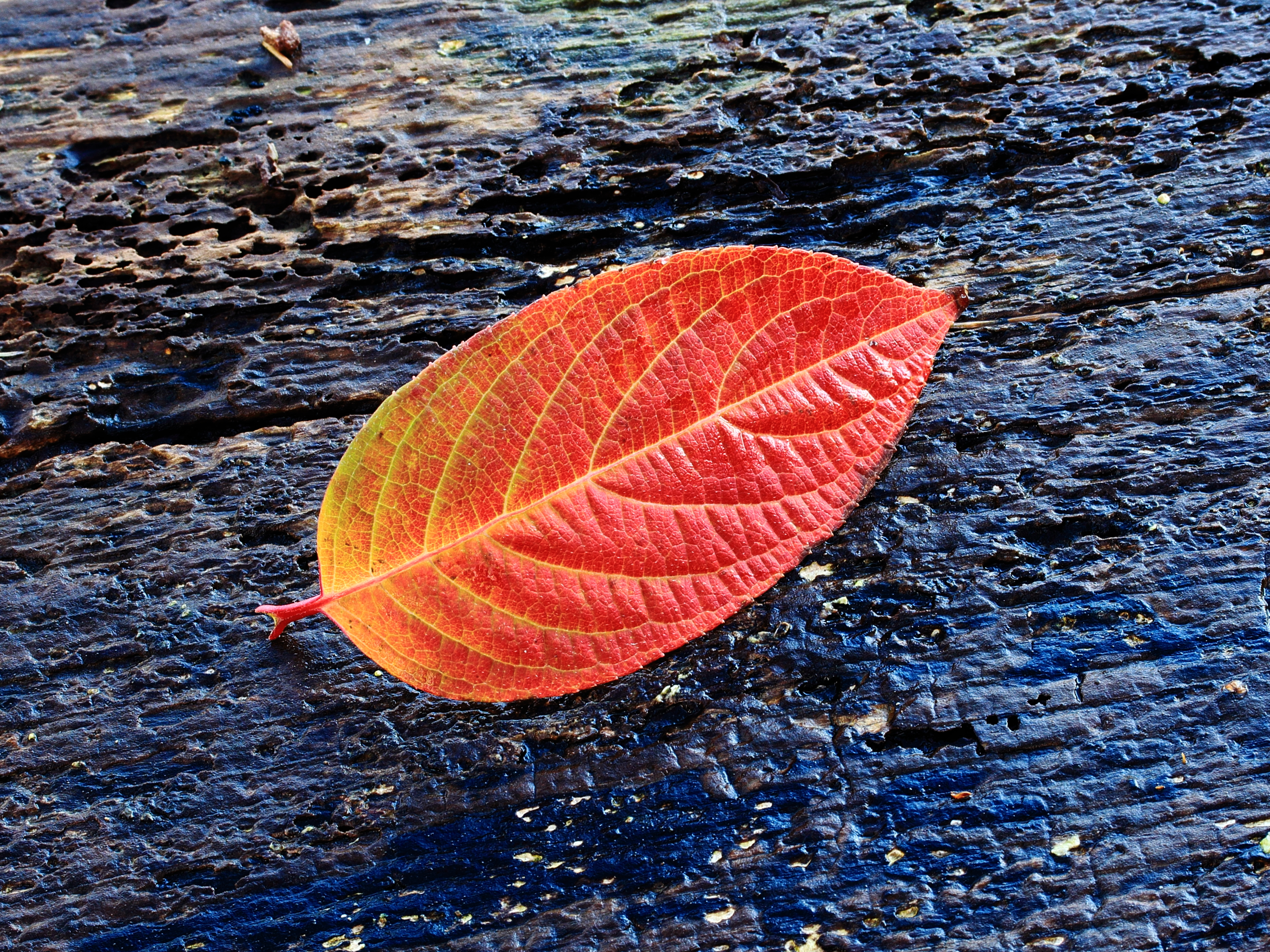 Leaf Hydrangea paniculata in autumn.